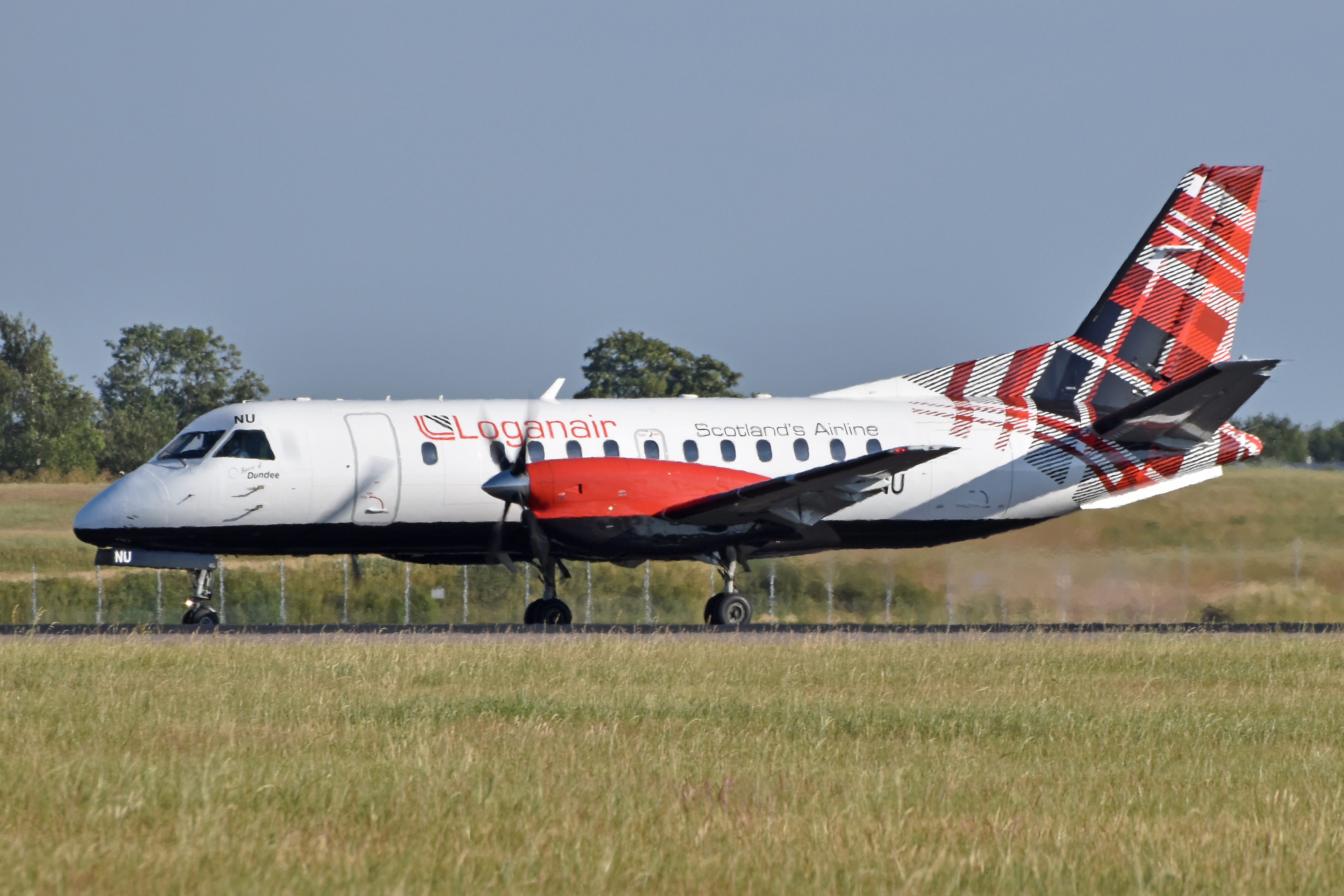 c/n 223. Built 1990. Seen arriving on flight LM625 / LOG56LK from Dundee. London Stansted, Essex, UK. 10th July 2018